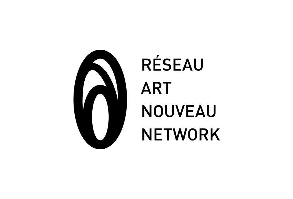 Logo Réseau Art Nouveau Network